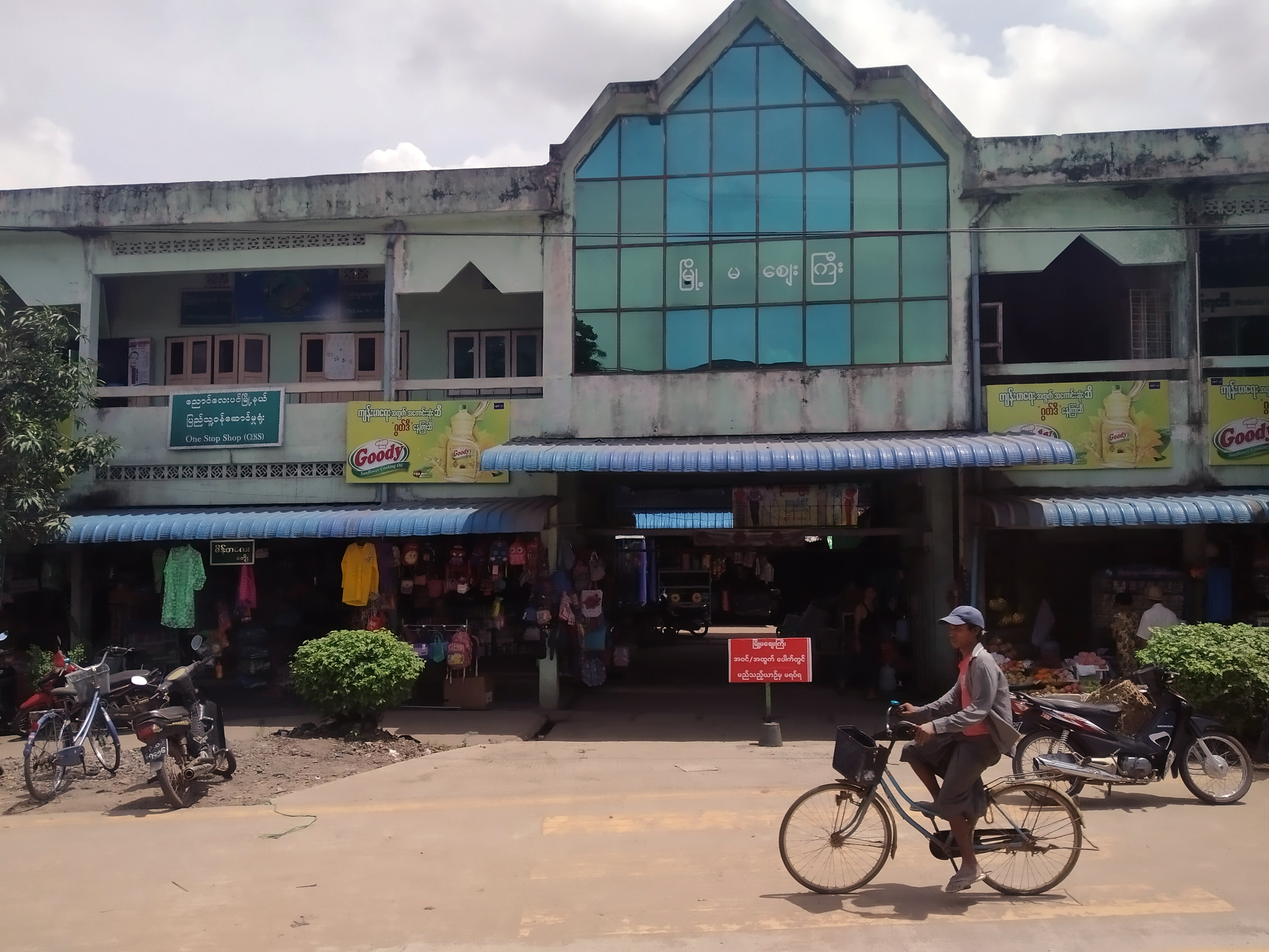 Nyaunglebin Myoma Market